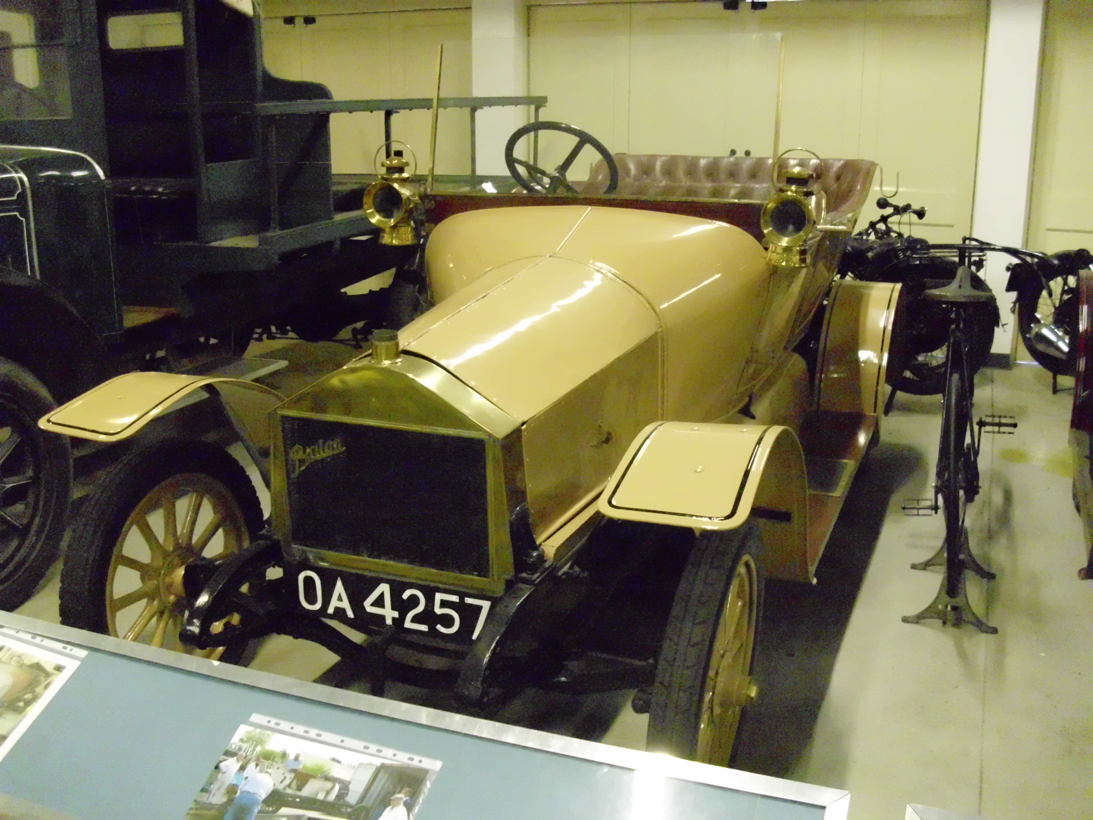 Briton 10/12 HP 1914